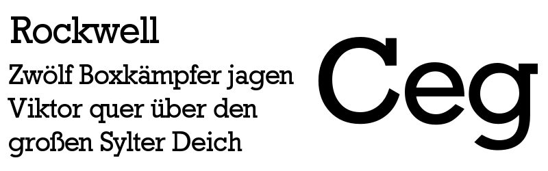 german pangram in typeface Rockwell